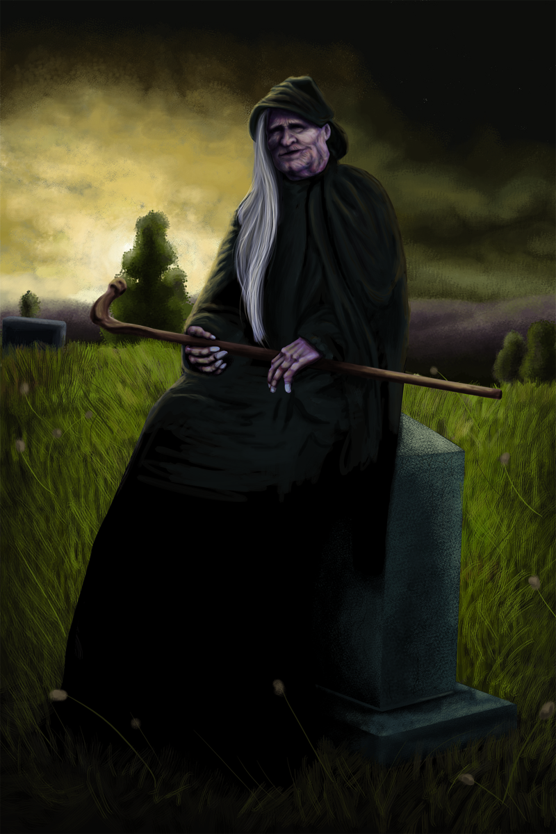 Painting of Tall Betsy